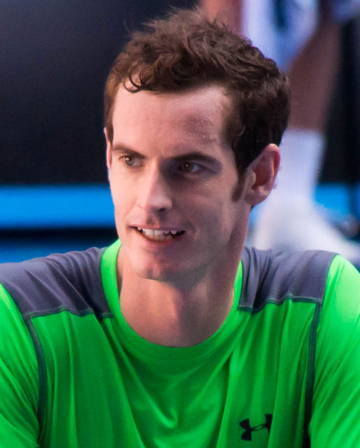 Andy Murray (GBR) after match point in his 3rd round straight-sets win over Joao Sousa (POR) at the 2015 Australian Open in Hisense Arena. Sousa's final shot was narrowly called out and he had run out of challenges, so Andy had to wait to shake hands while Sousa pleaded his case to the umpire.